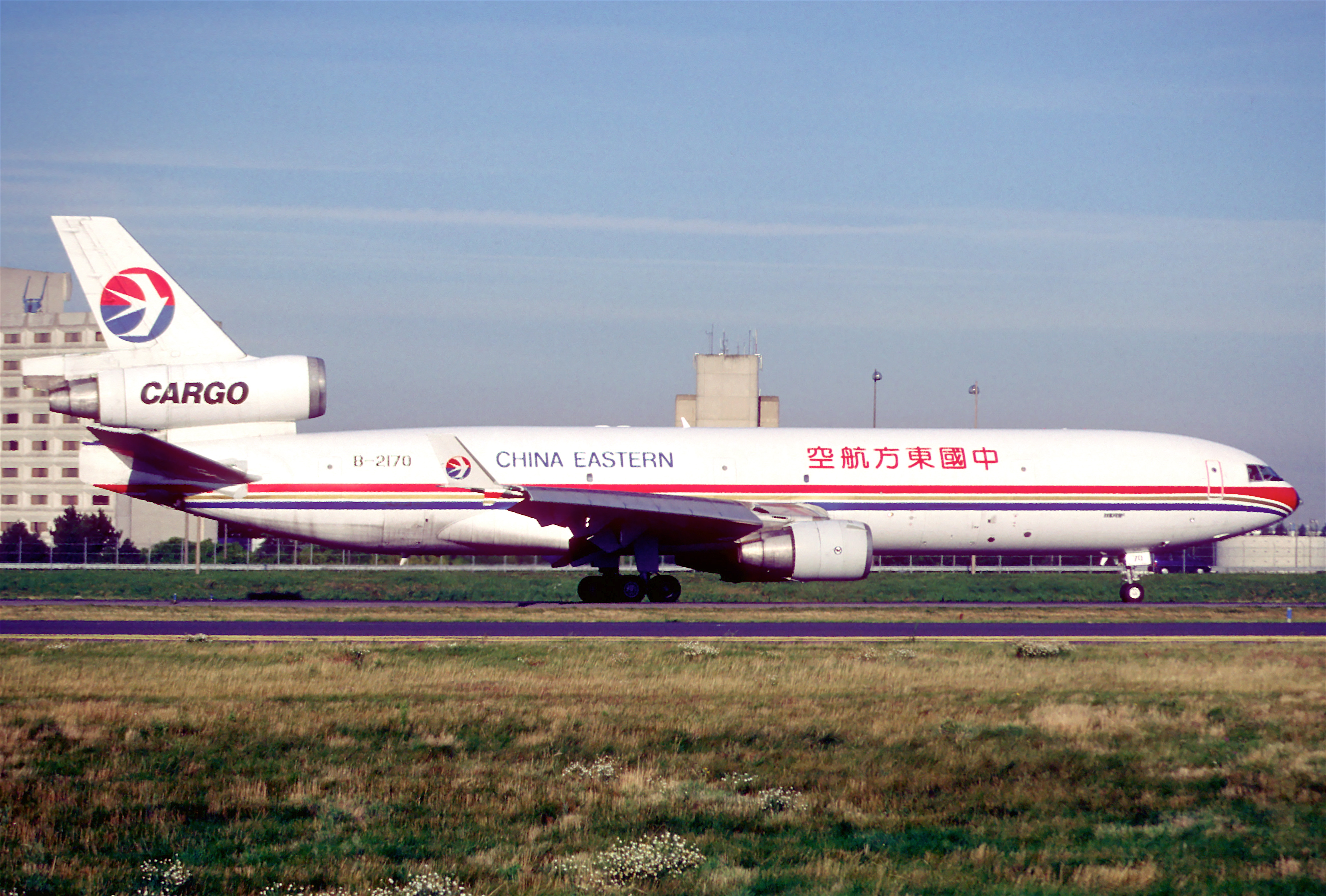 145bs - China Eastern Airlines Cargo MD-11F; B-2170@CDG;11.08.2001